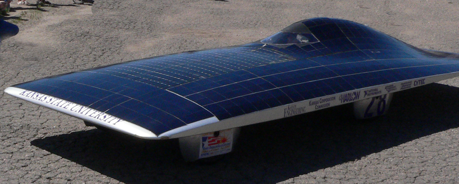 a photo of a solar car